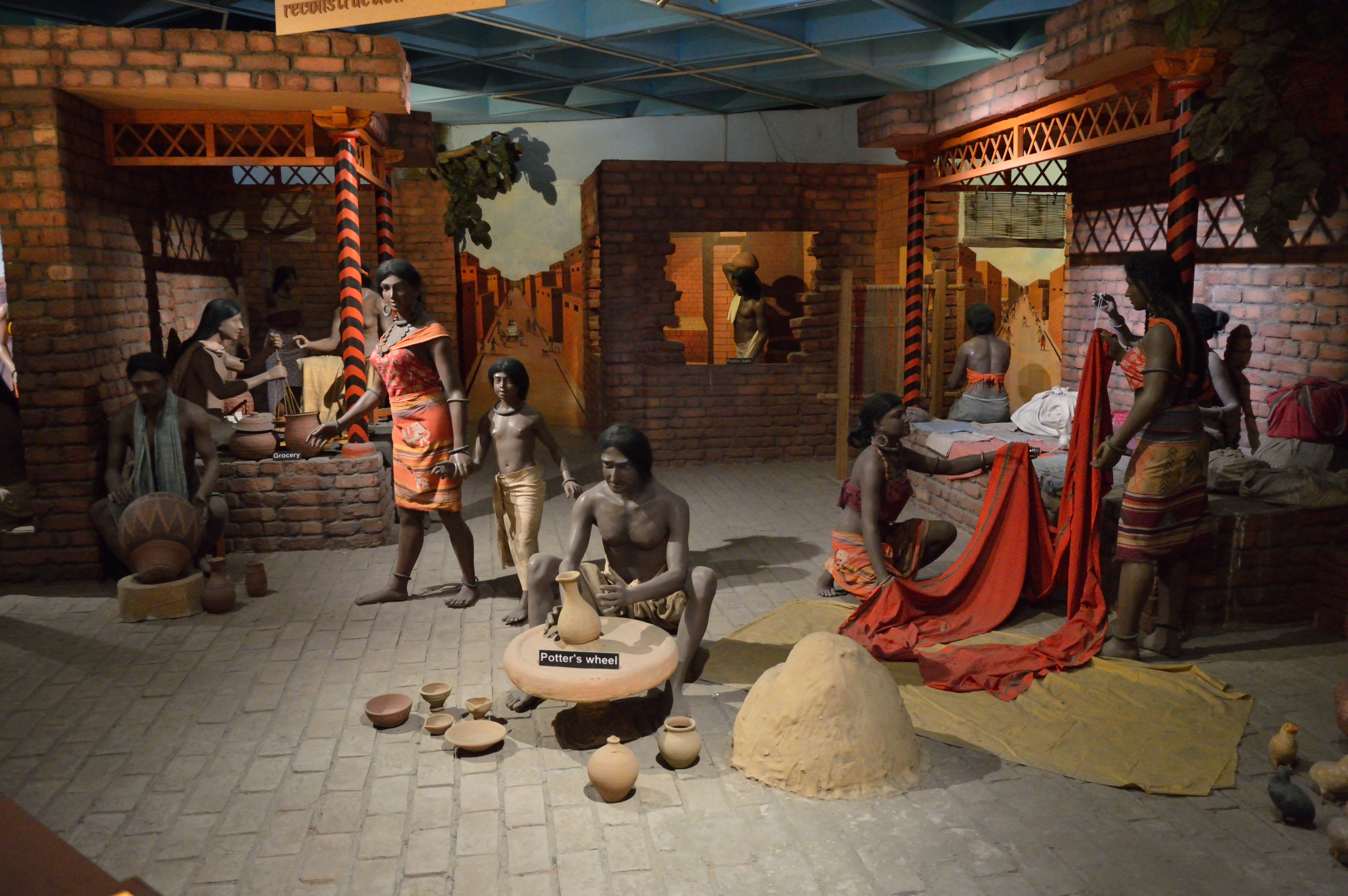 Photographed in New Delhi.